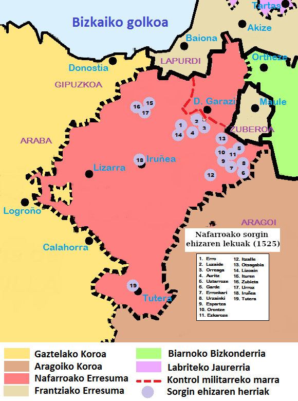 1525 witch hunting in the Kingdom of Navarre